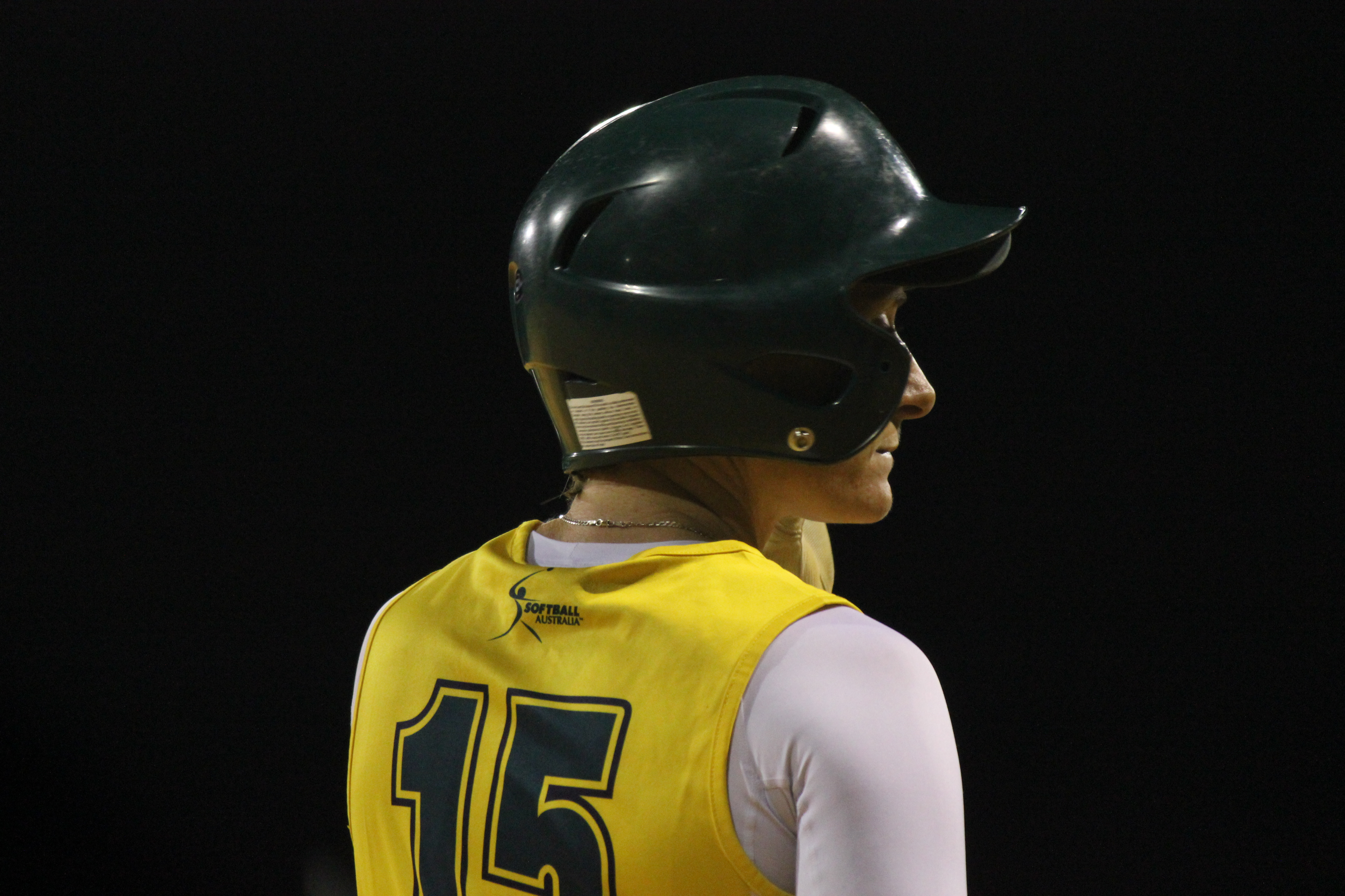 Game two between Australia and Japan on 21 March 2012. Brenda De Blaes.